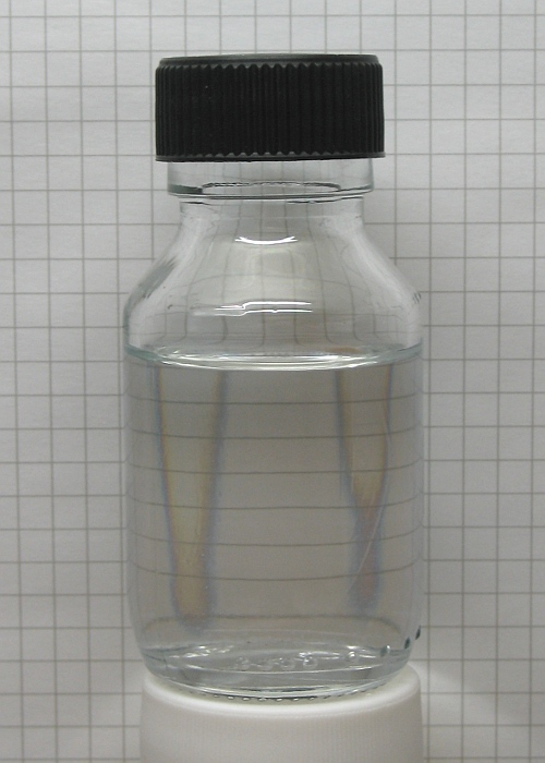 Methyl ethyl ketone